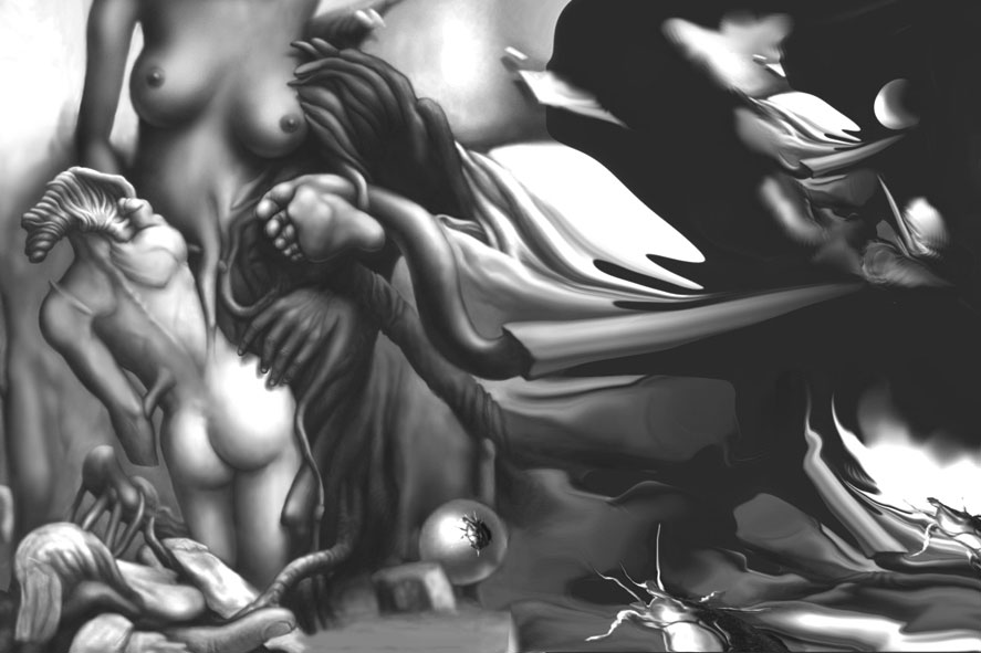 Untitled, digital painting by Bernard Dumaine and Pinina Podesta, 2005 from: licensed under: Free Art License